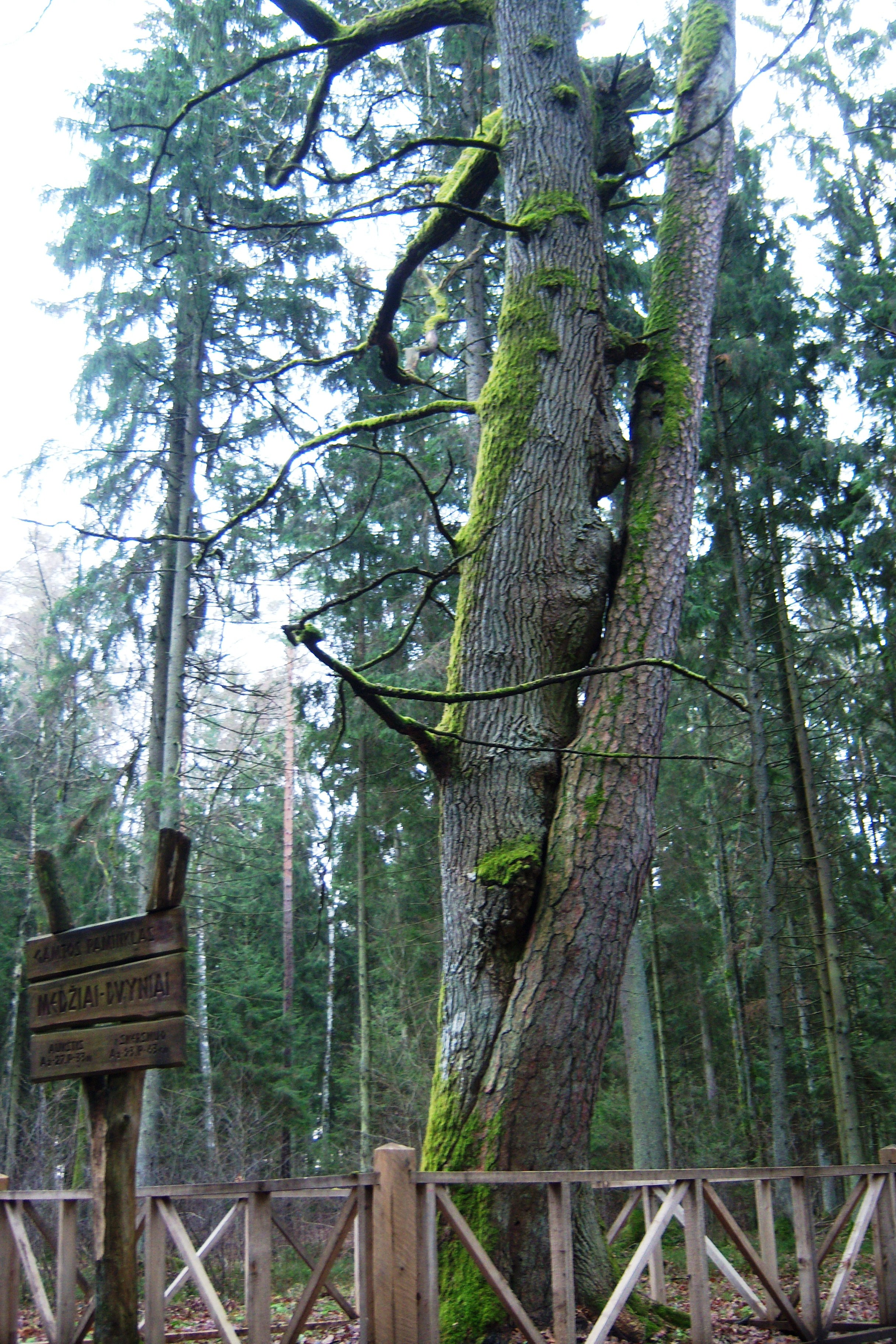 Dubrava twin trees - oak and pine, natural heritage object, Kaunas district, Lithuania